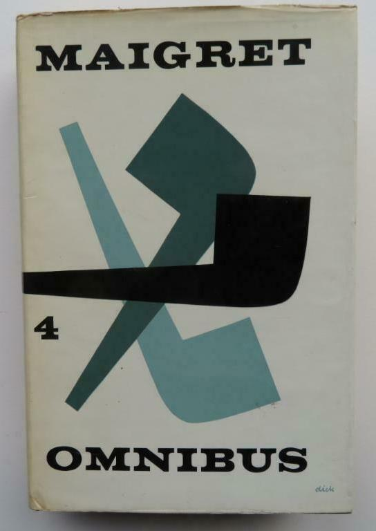 Dutch book cover Maigret-omnibus 4